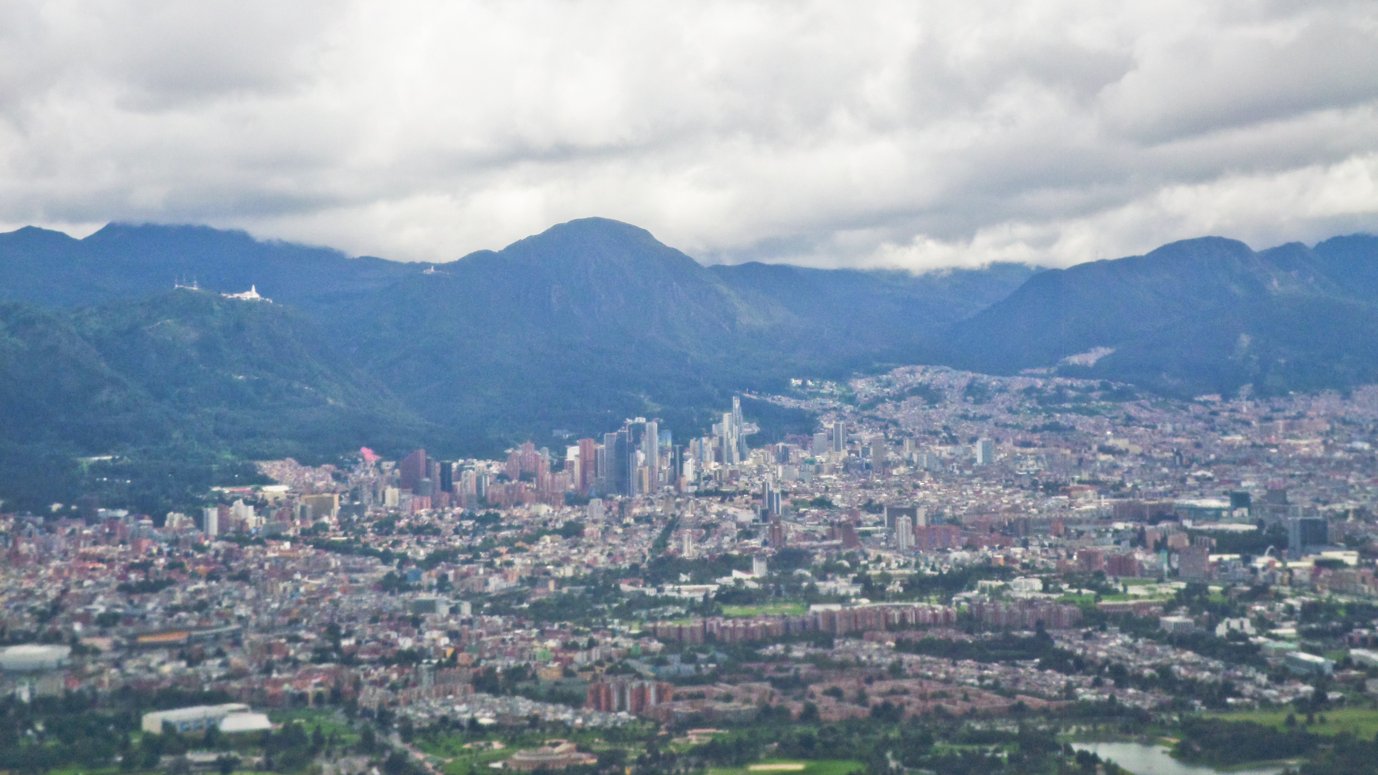 Aerial photographs of Bogotá